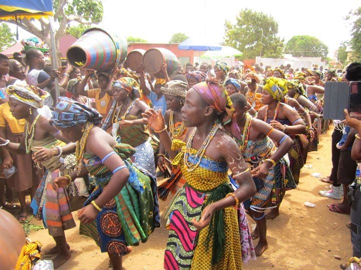 Hogbestosto festival This is an image of Cultural Fashion or Adornment from Ghana